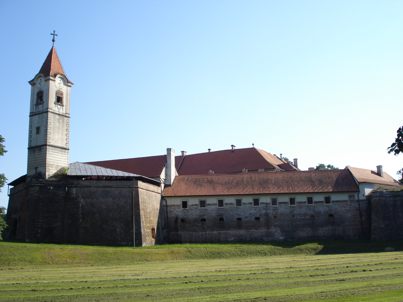 Zrinski Castle in Čakovec - north view